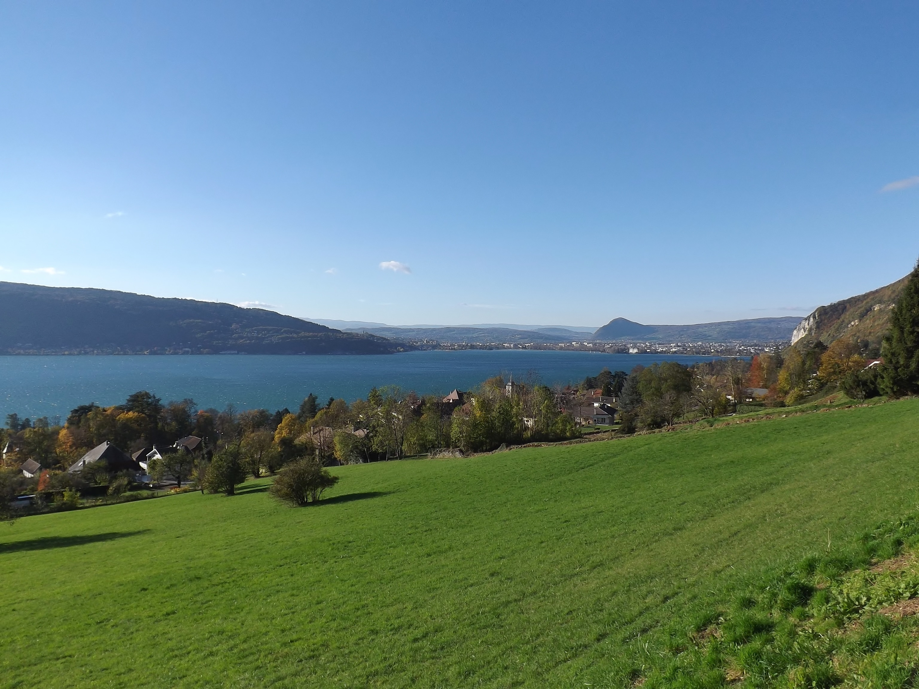 Panoramic sight of the French commune of Veyrier-du-Lac and the northern part of the lac d'Annecy lake, with Annecy at the background, in Haute-Savoie.